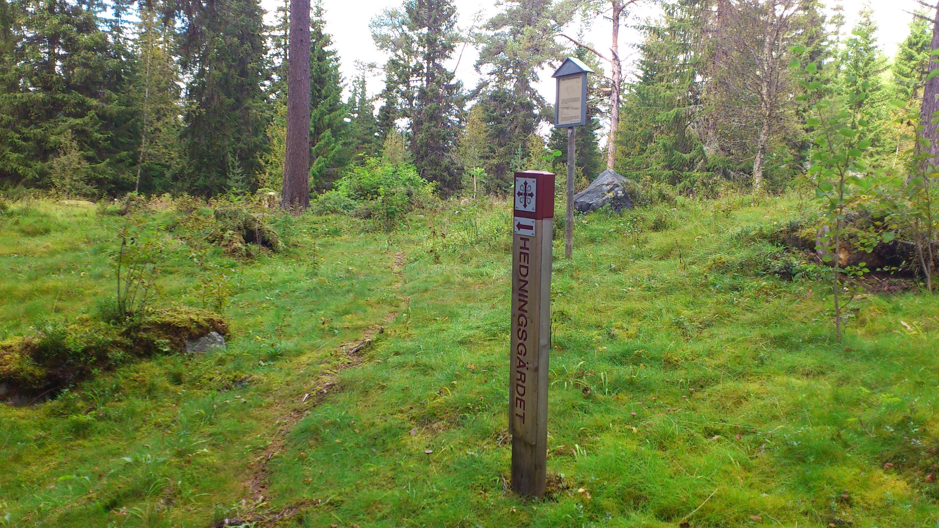 Hedningsgärdet is one of the stamp sites along the Romboleden